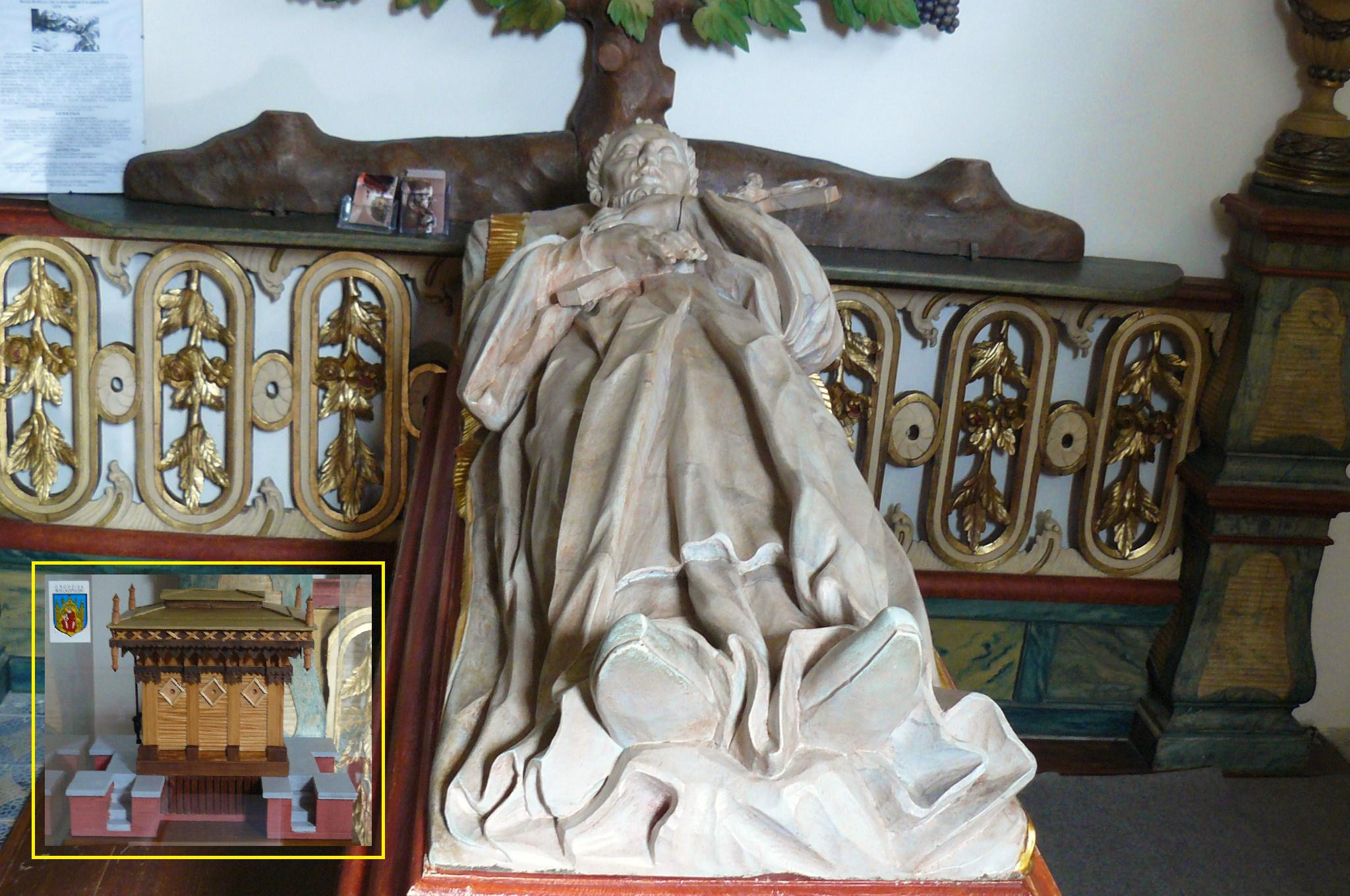 Tomb of Bernard from Wabrzezno in Lubin Koscianski.